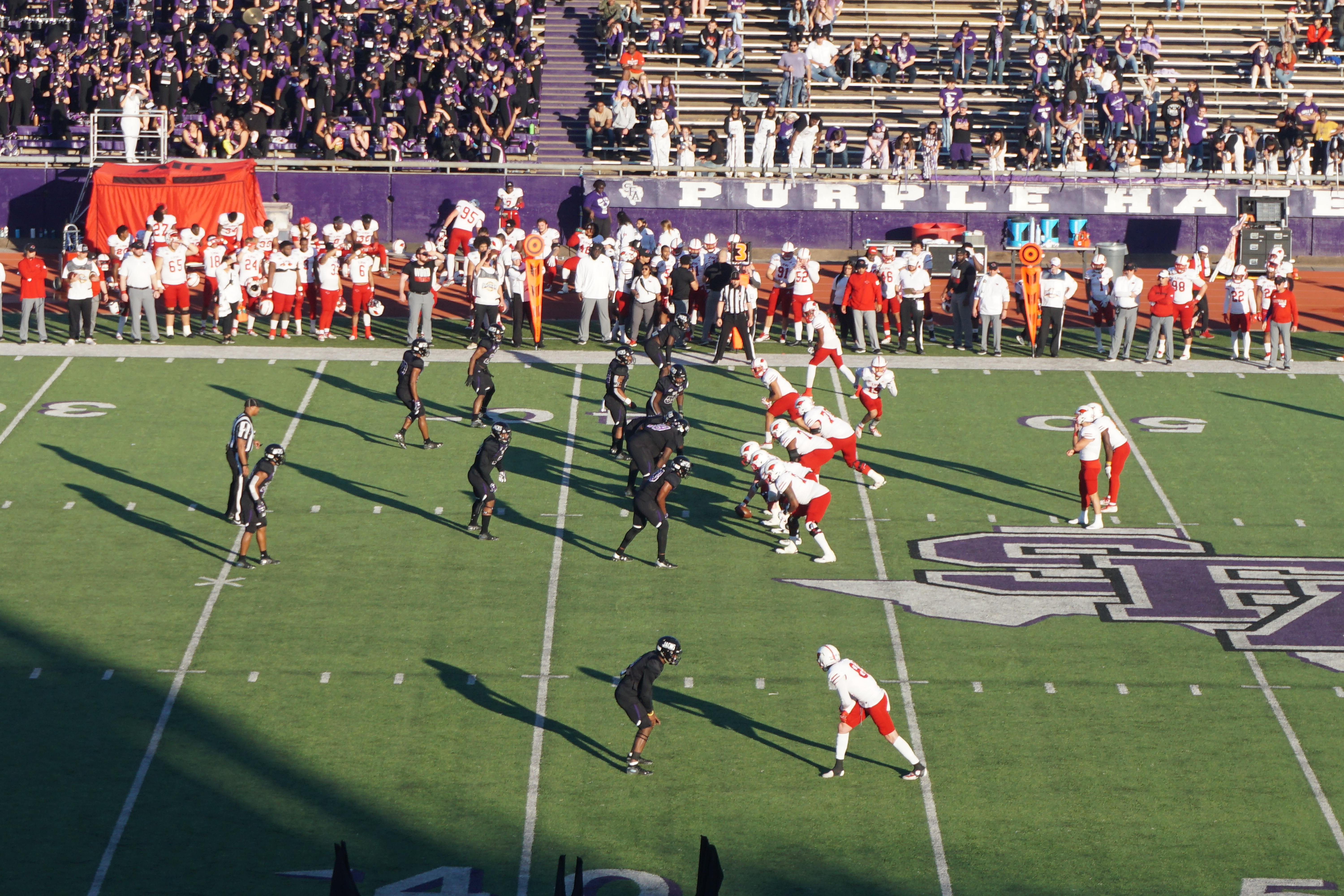 Incarnate Word on offense during the Incarnate Word Cardinals vs. Stephen F. Austin Lumberjacks football game at Homer Bryce Stadium in Nacogdoches, Texas (United States). Stephen F. Austin won 31–24.